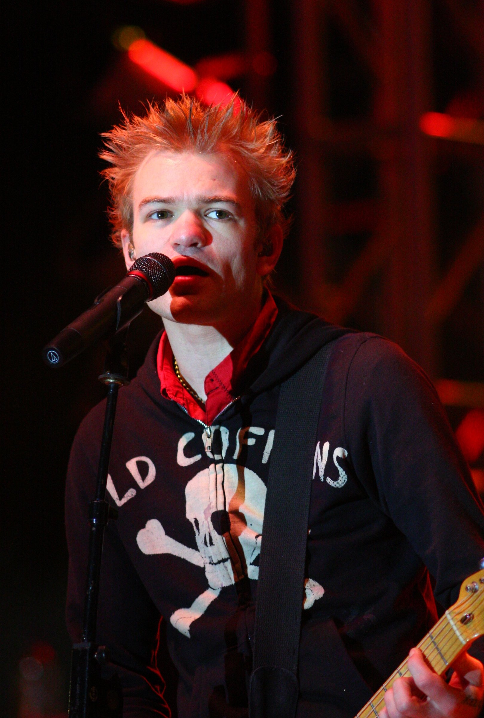 Sum 41 @ Rolex Daytona 24, 1/2008.